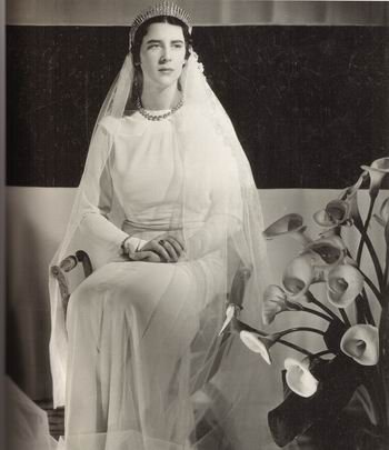 Princess Elizabeth of Greece